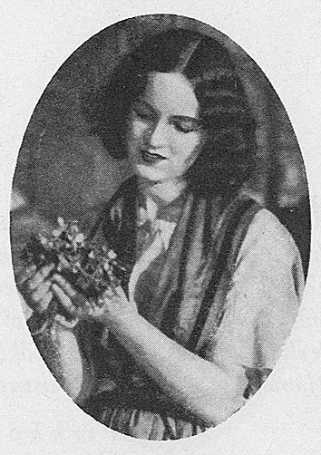 Finnish theatre personality, photographed in early 1930s.